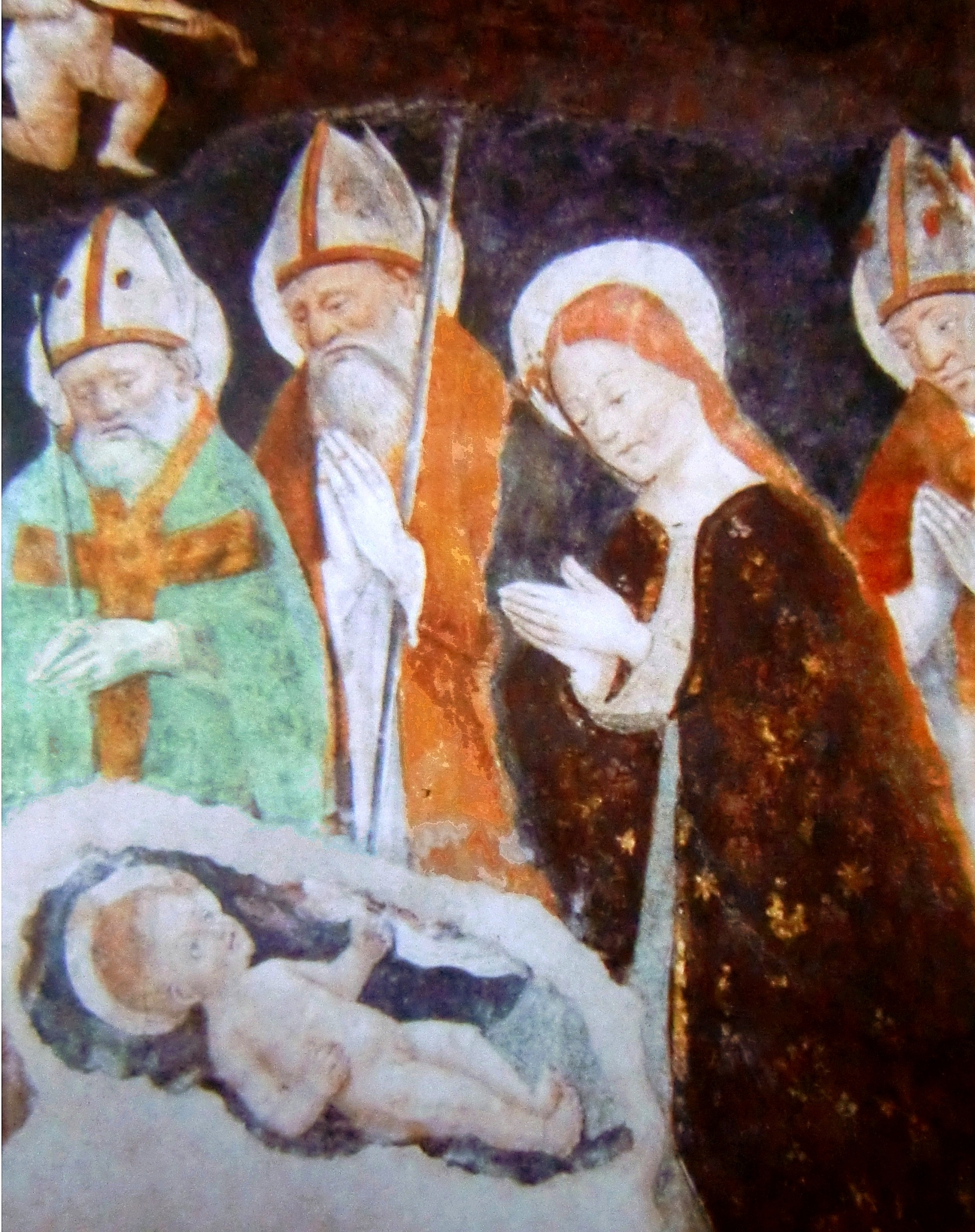 San Pietro Vecchio church , School of Martino Spanzotti, The Adoration of the Child, Favria, Turin, Italy Church of Saint Peter Vecchio Native nameChiesa di San Pietro VecchioLocationFavria, Piedmont, ItalyCoordinates45° 20′ 03″ N, 7° 41′ 38″ E Established11th century (Began construction)